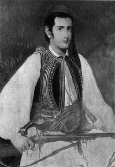 Samuel Gritley Howe (1801-1876)